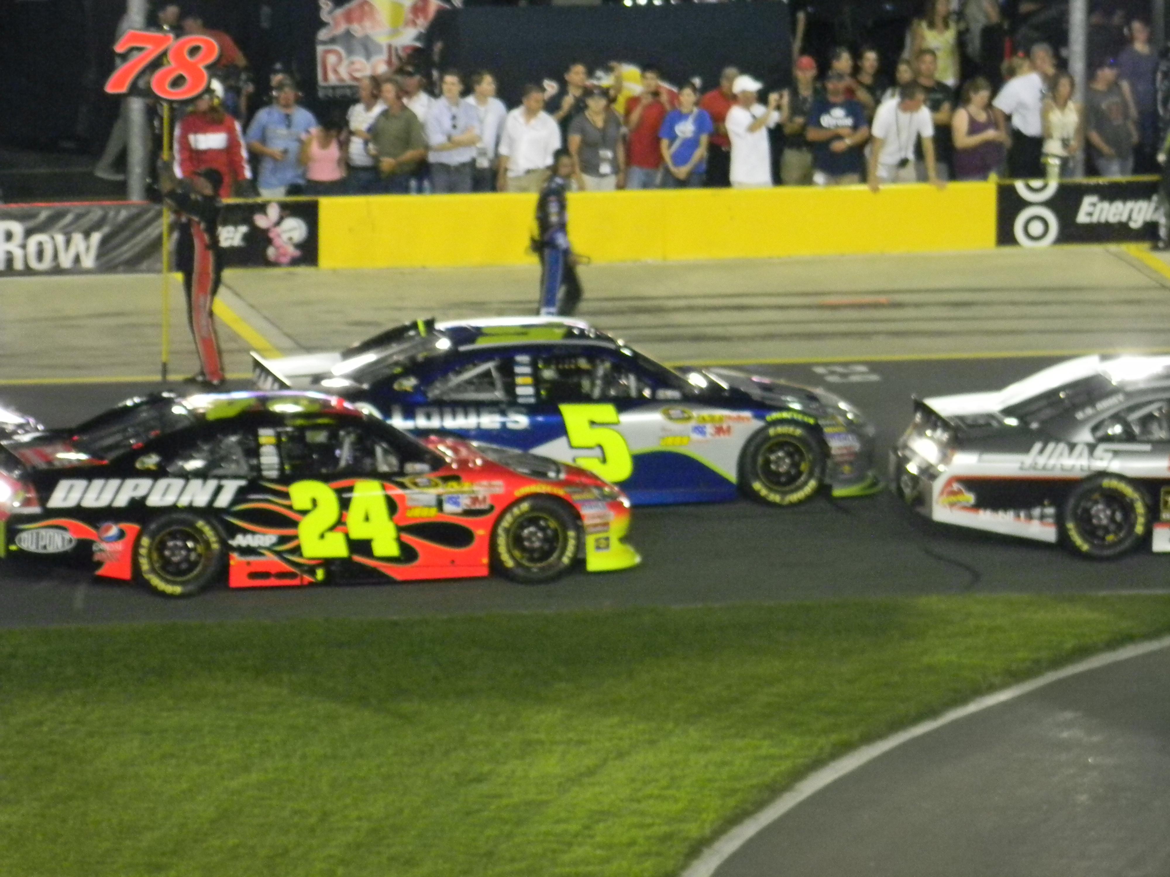 Jeff Gordon and Jimmie Johnson on grid 2011 NASCAR Sprint All-Star Race at Charlotte